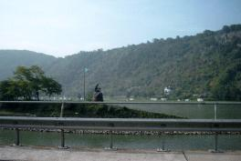 Monument of Lorelei girl on Rhine River on 10 10 2005